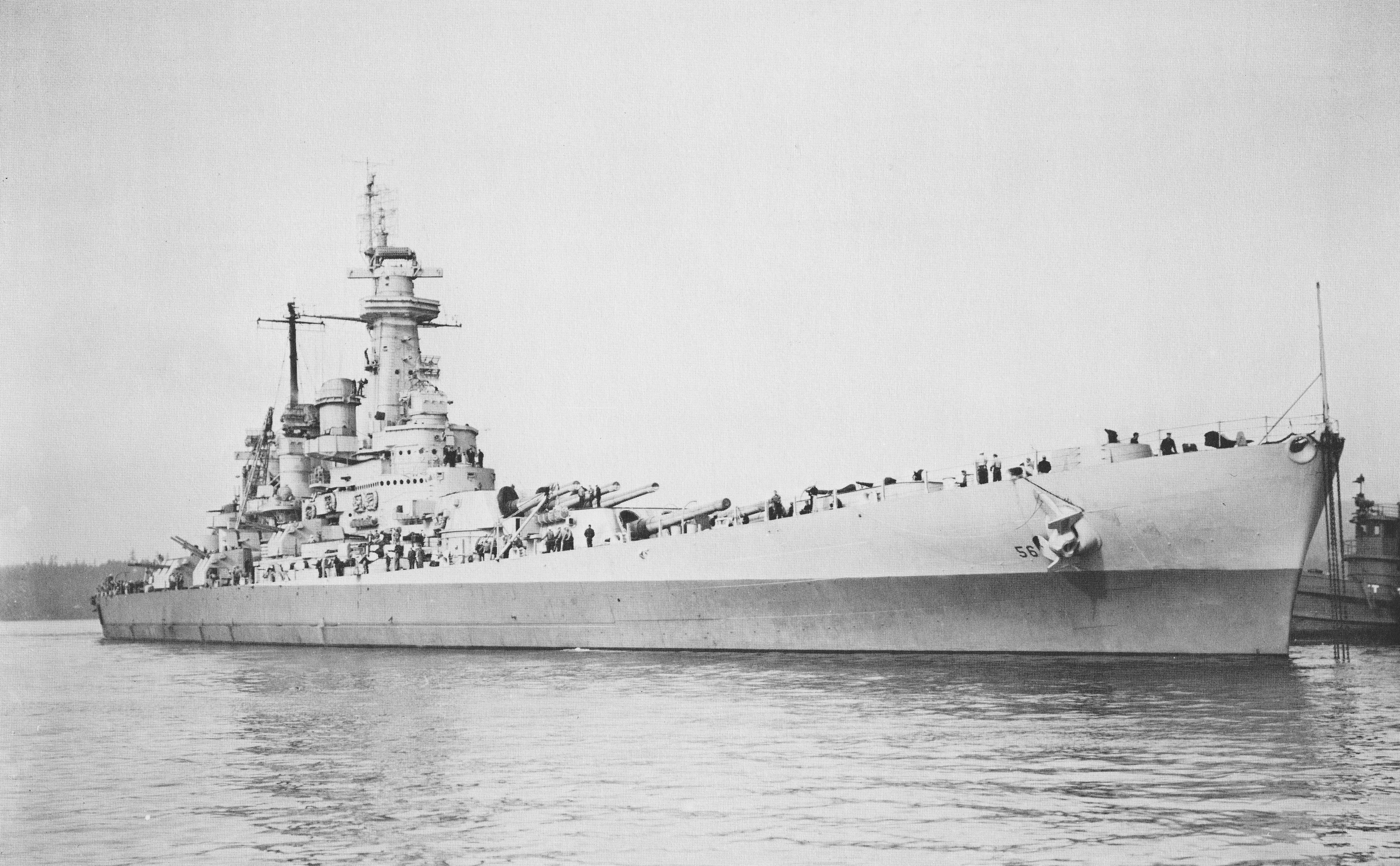 Photo # 19-N-63999 USS Washington off the Puget Sound Navy Yard, April 1944, following repair of collision damage to her bow.